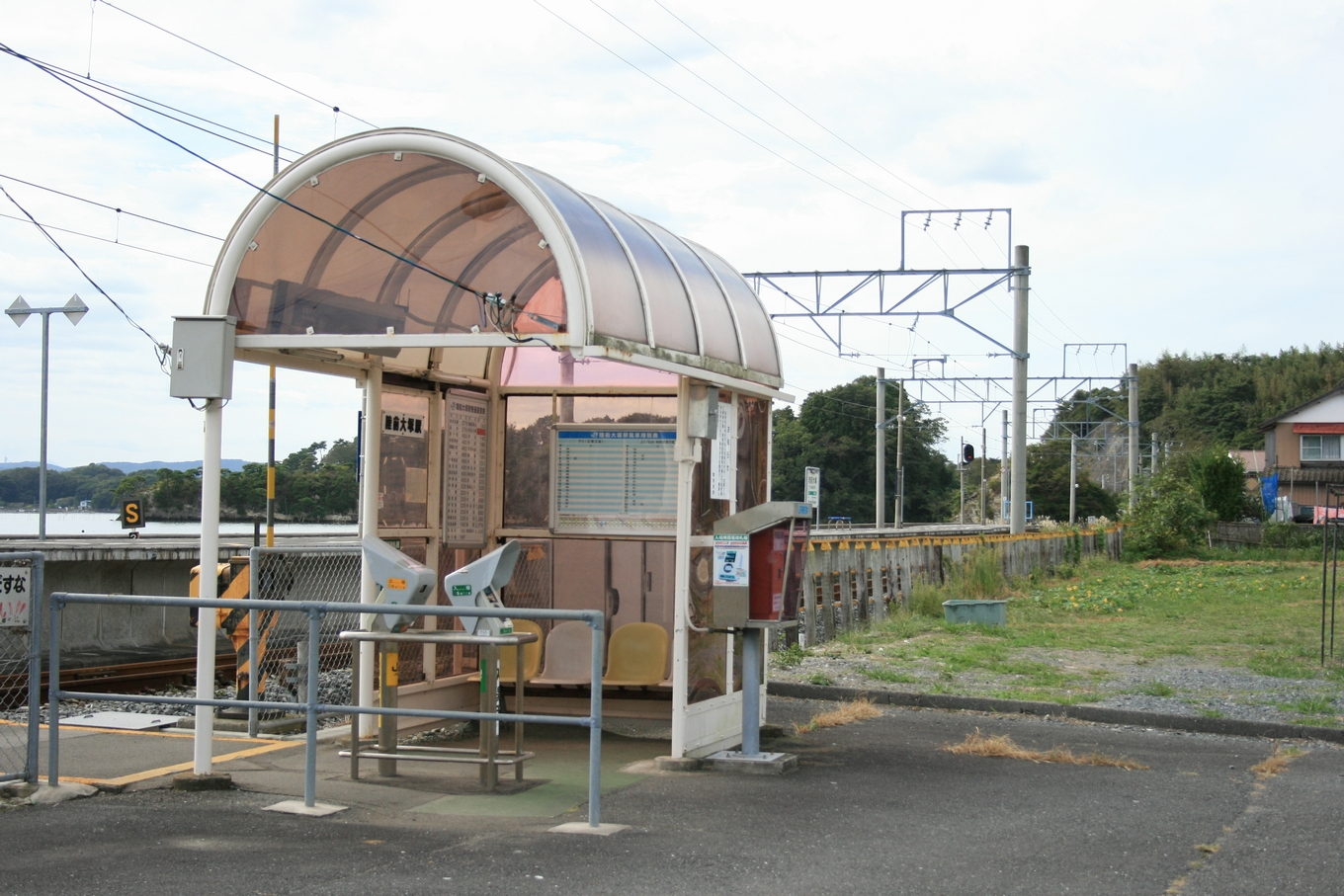 Rikuzen-Ōtsuka Station, Higashimatsushima, Miyagi, Japan